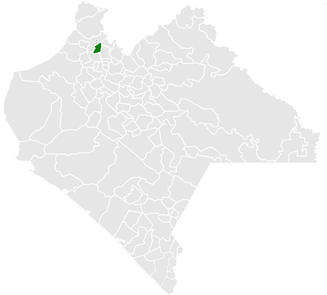 Map of the Municipalty of Ixtacomitán in the State of Chiapas, México.